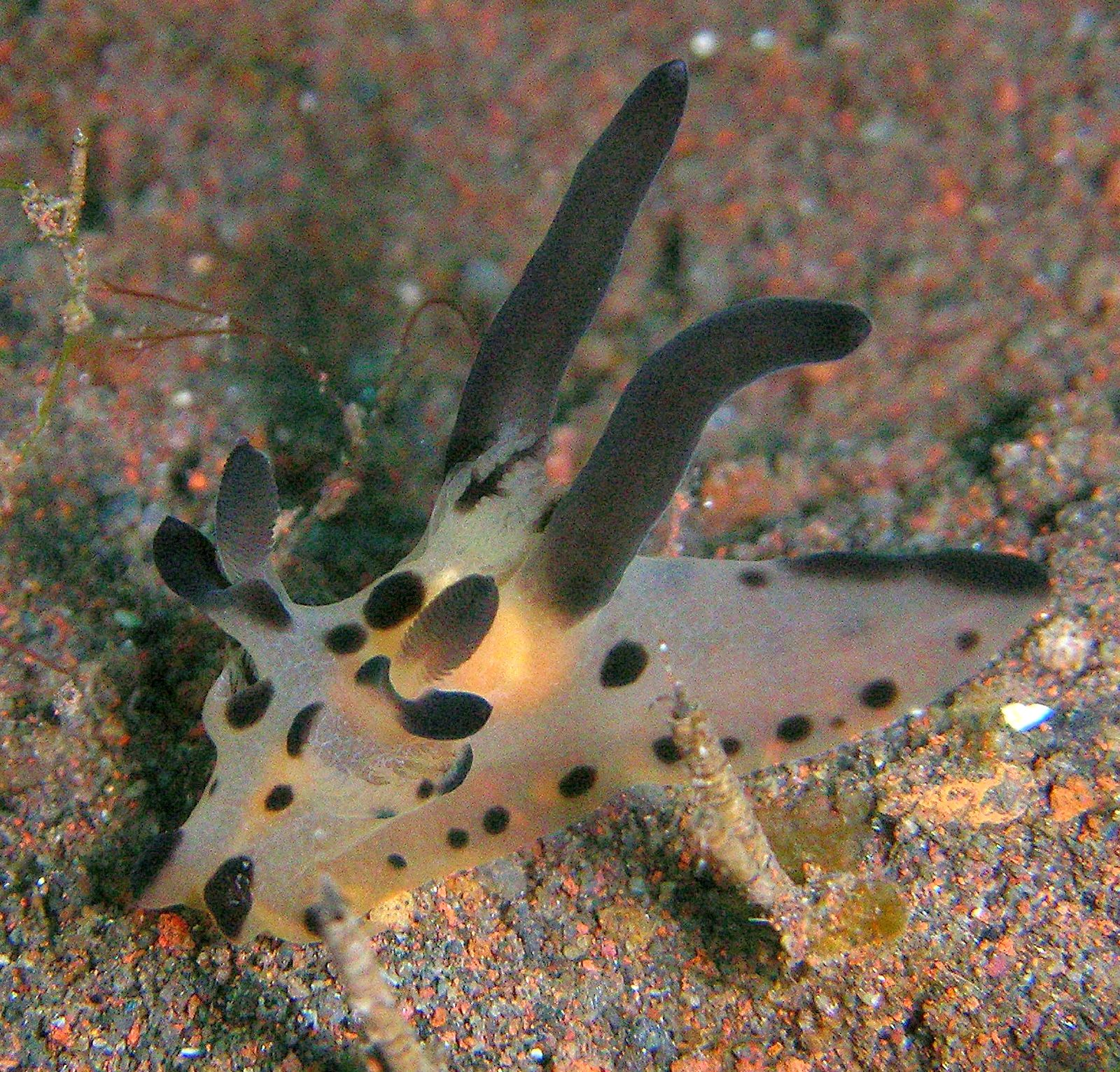 Thecacera sp.